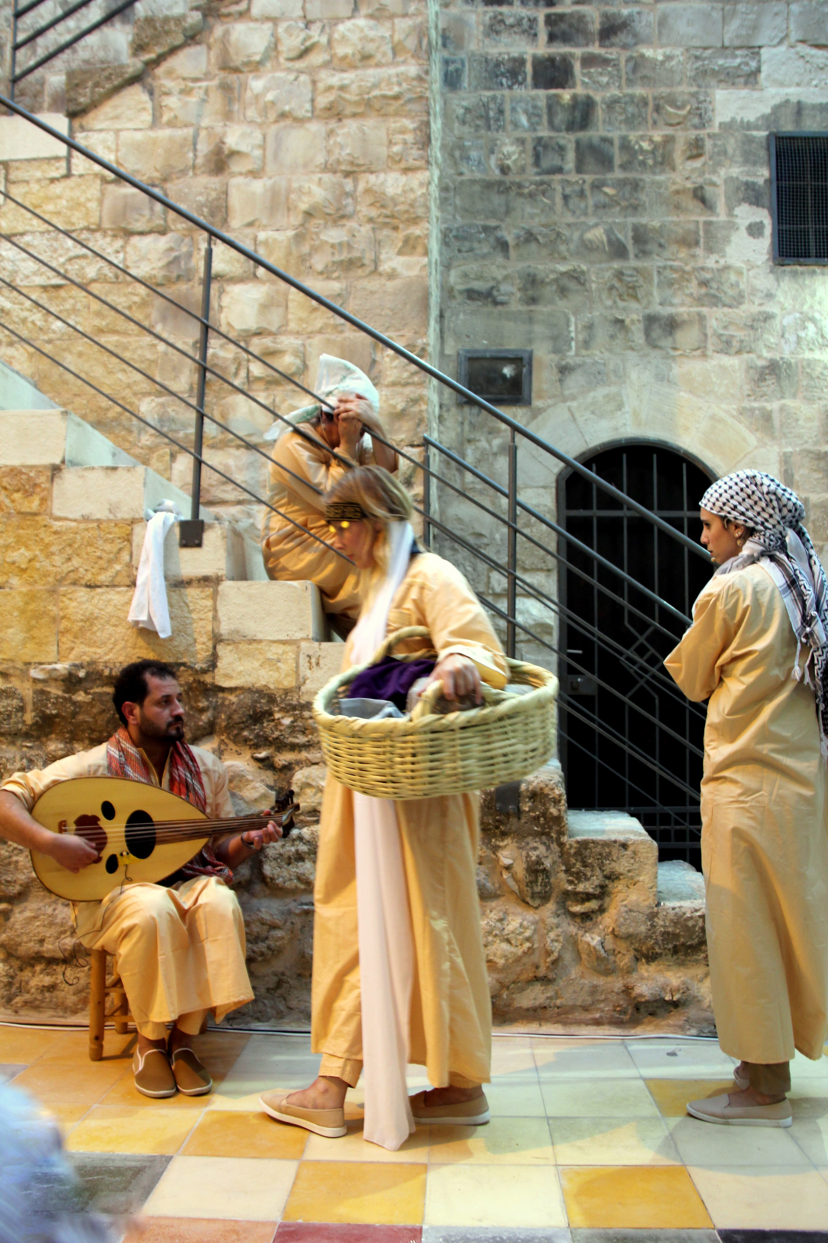 Play at Al Kayed Palace Sebastia